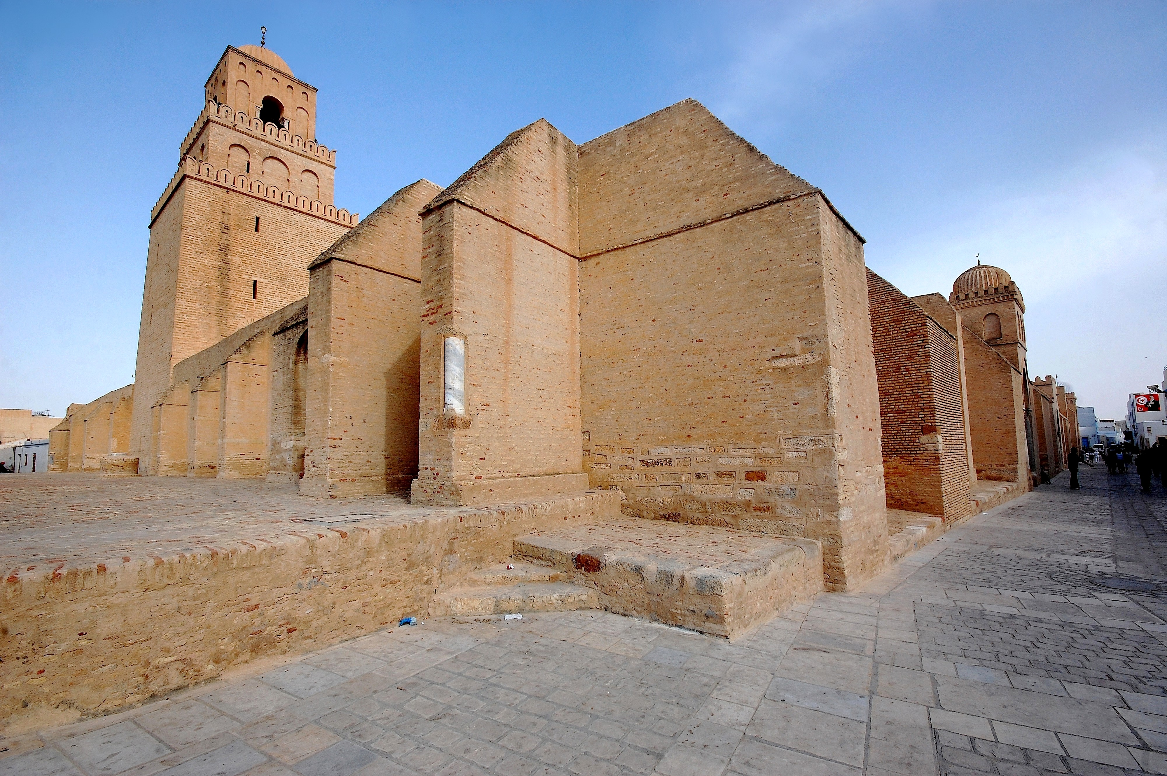 An exterior view of the Great Mosque of Kairouan (in Tunisia) showing the buttressed walls and the minaret.